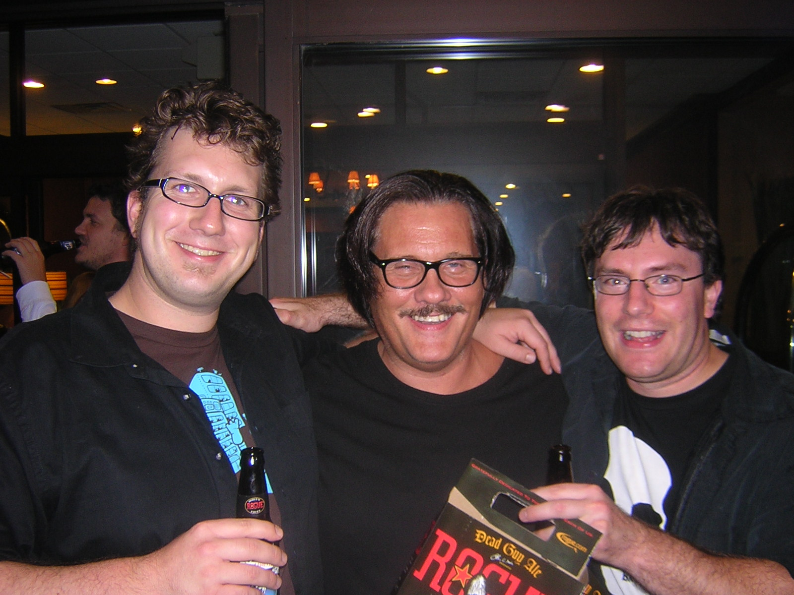 William Forsythe, character actor and fan of Rogue's Dead Guy Ale - nicest guy ever.